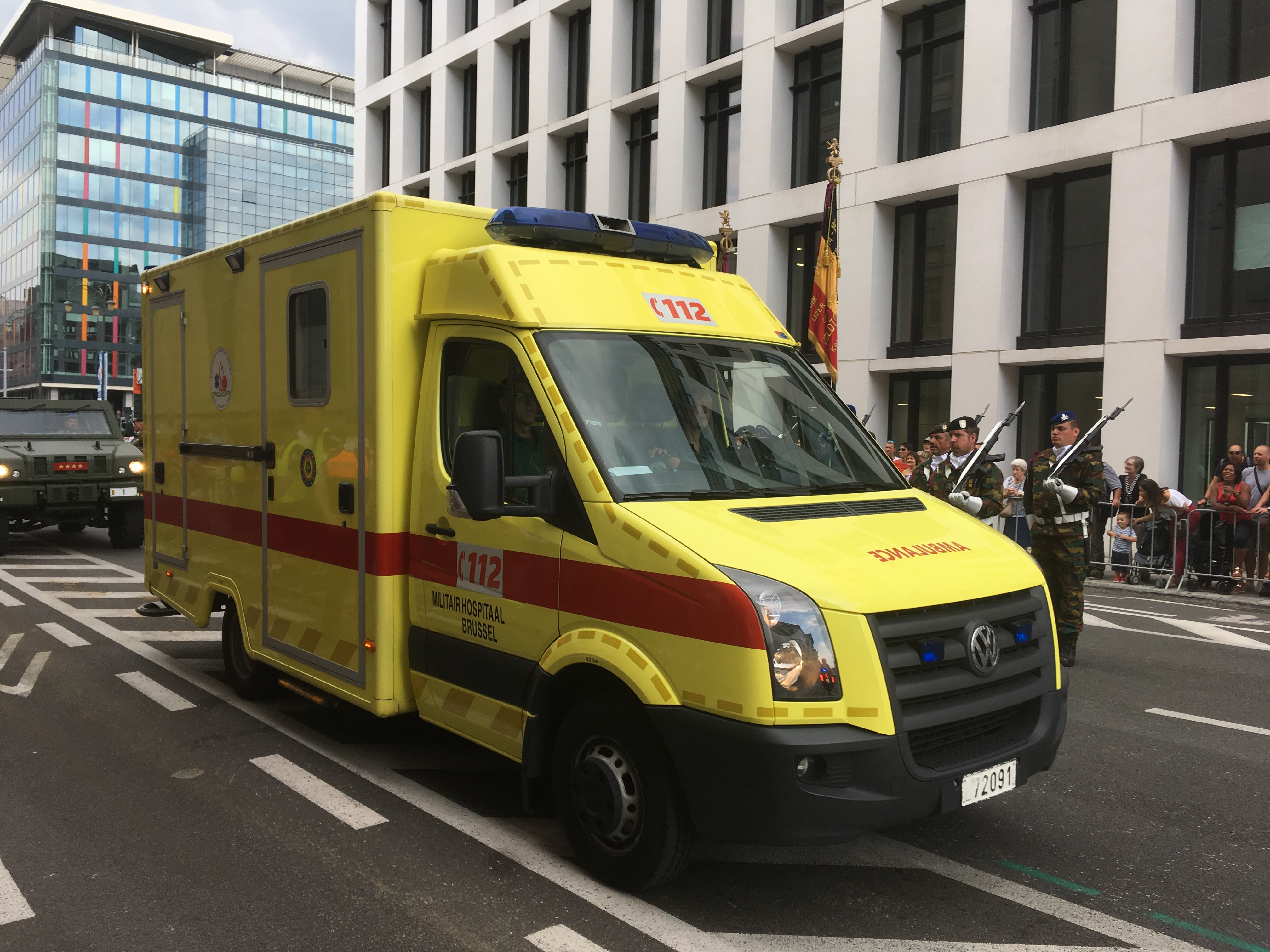 Ambulance of the Belgian Queen Astrid Military Hospital during the National Parade on July 21, 2018